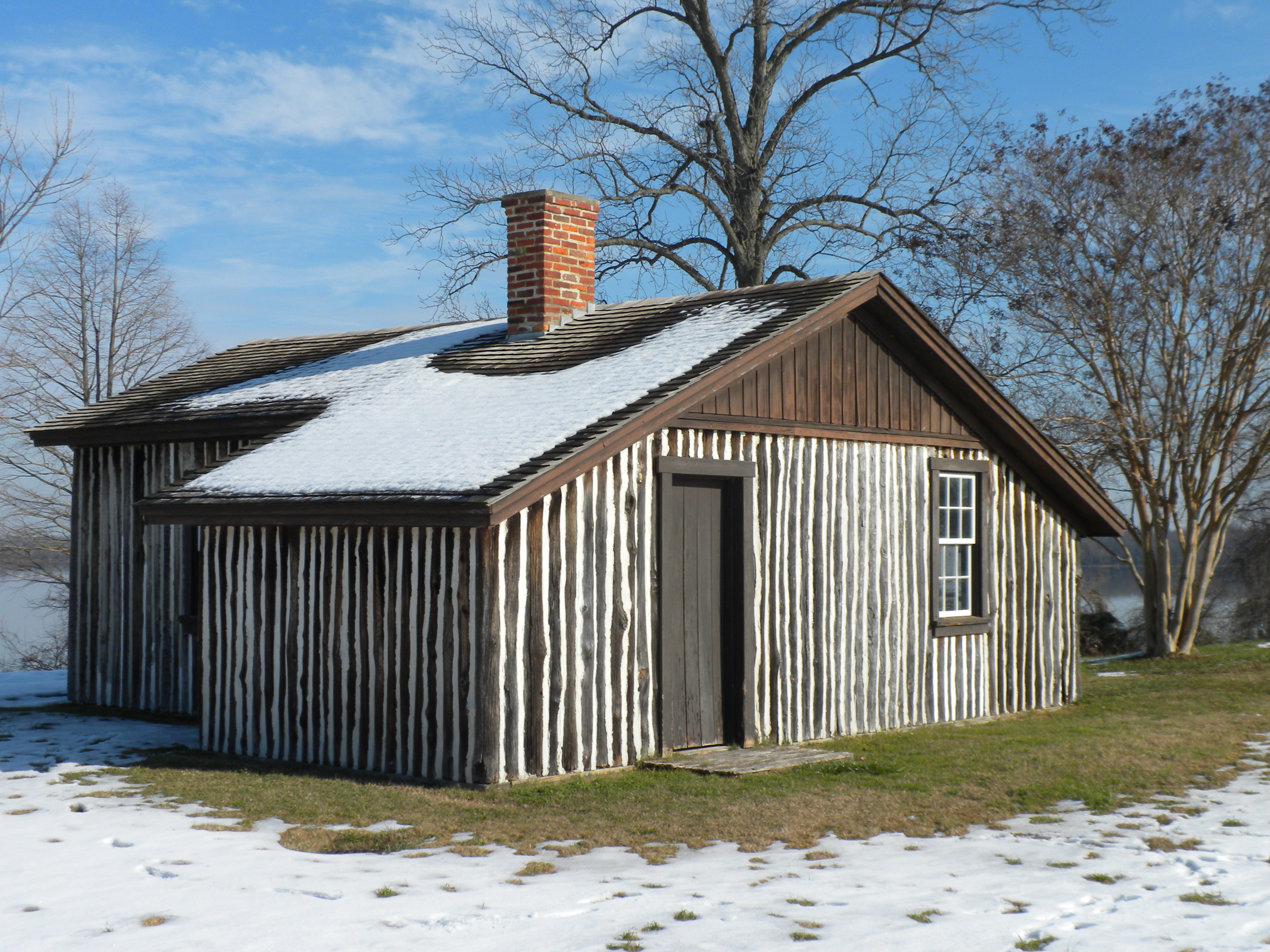 Cabin used by General US Grant during the Siege of Petersburg at City Point, VA. I donate this photo to the public domain